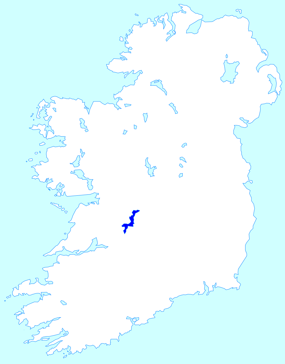 Location map of the Lough Derg in Munster, Ireland